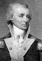 Portrait of General Thomas Sumter, c. 1790. Artist unknown.